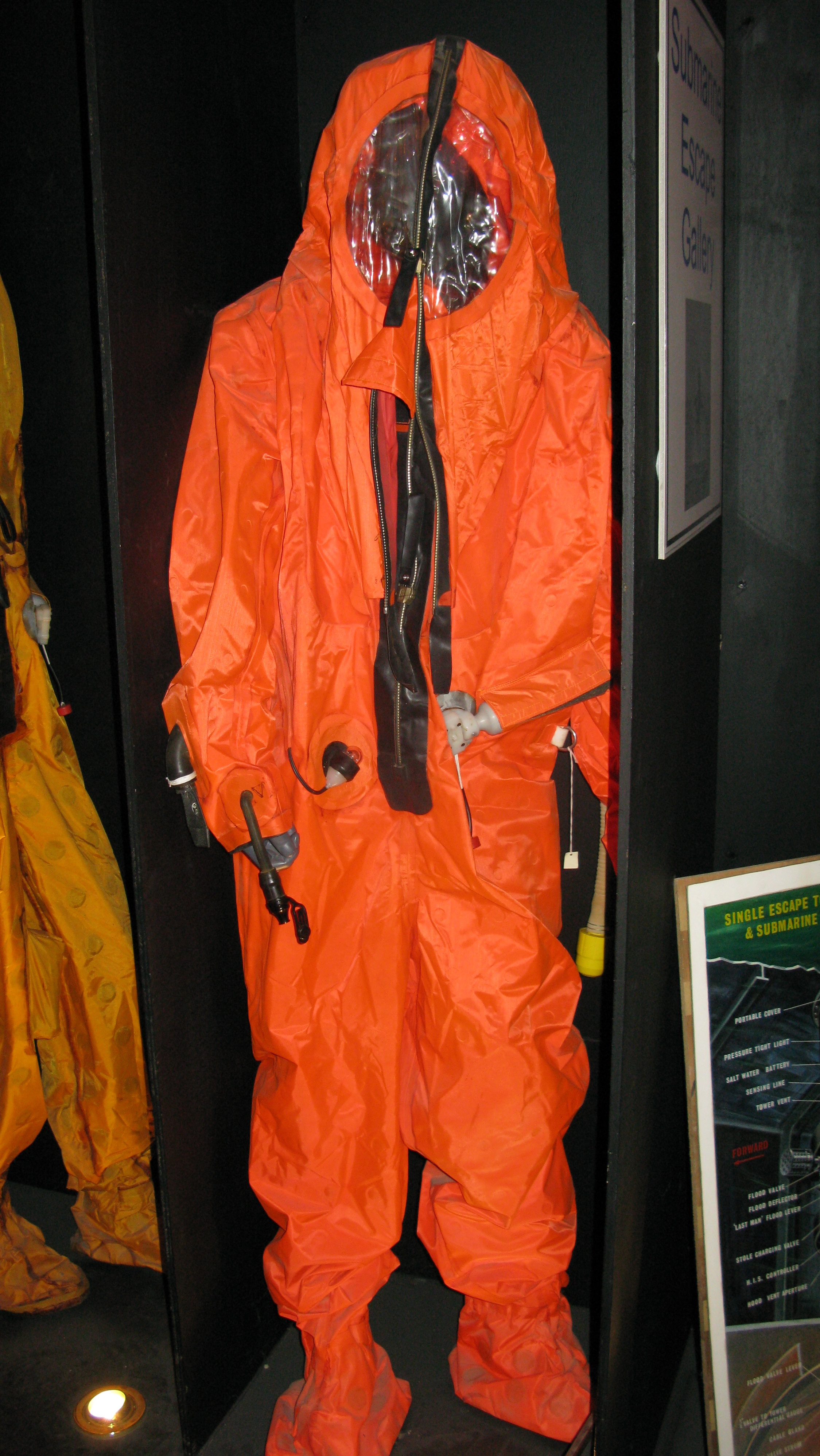 Photo of a hooded immersion suit, 1971 (MK 7 SEIE) [1]